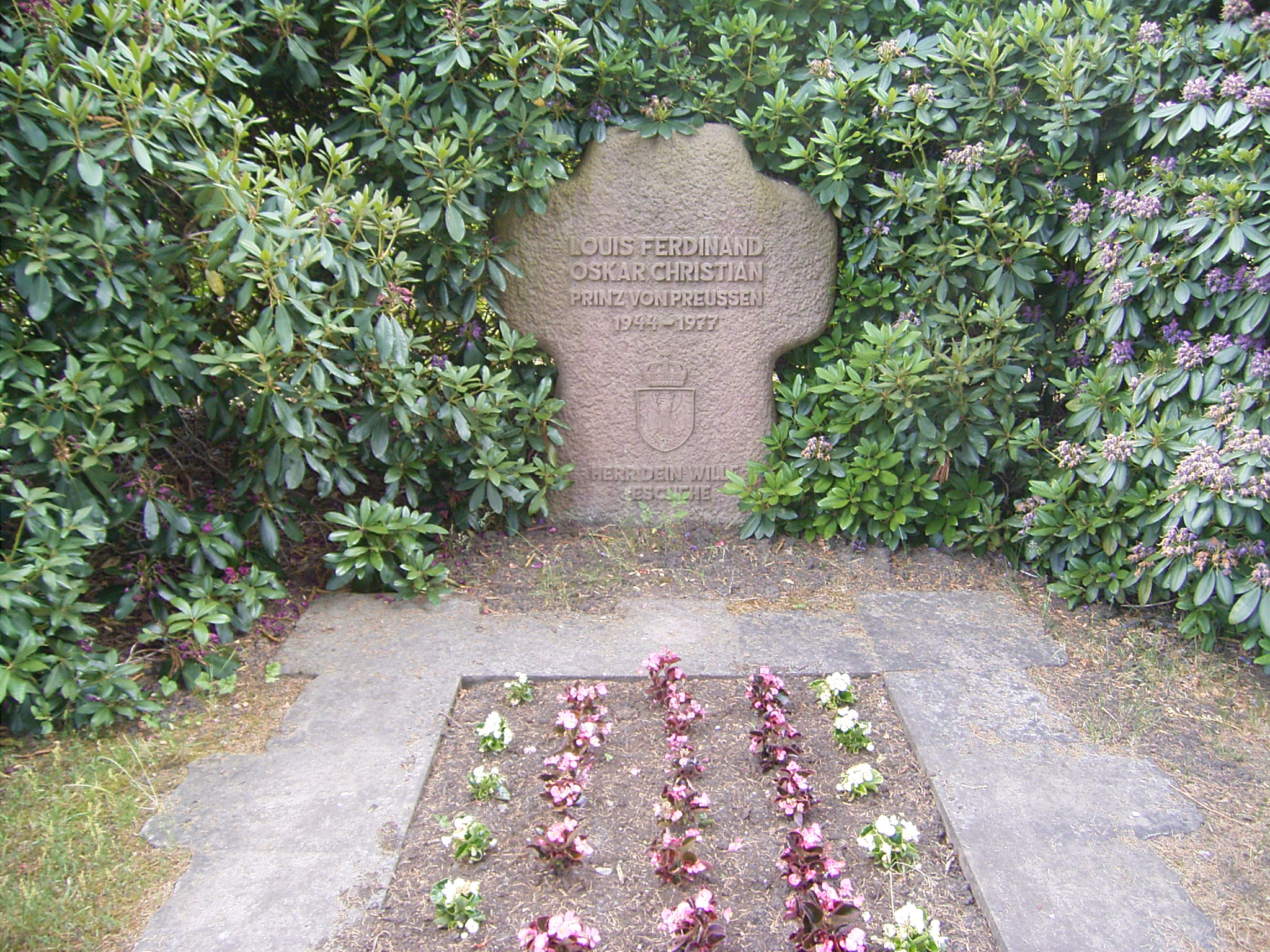 Grave of Louis Ferdinand Prinz von Preussen (1944-1977) in Fischerhude near Bremen, Germany